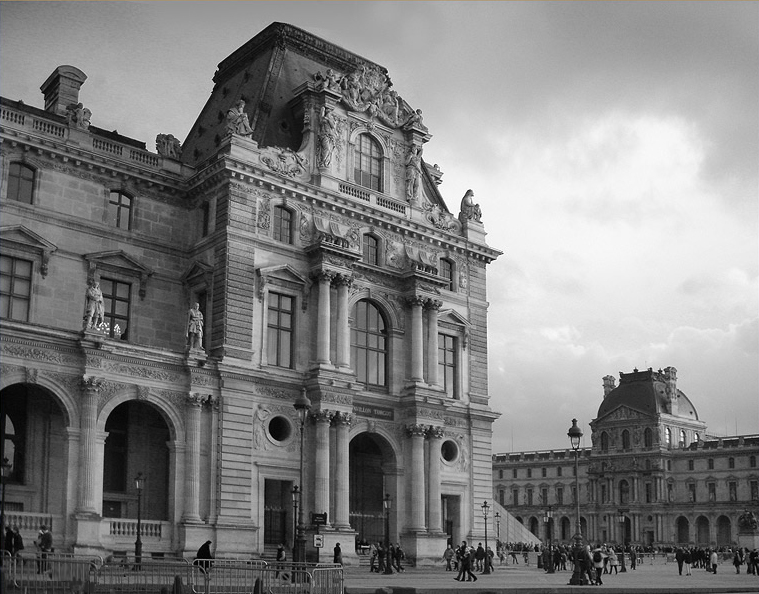 Corner of Pavillon Turgot, Louvre.